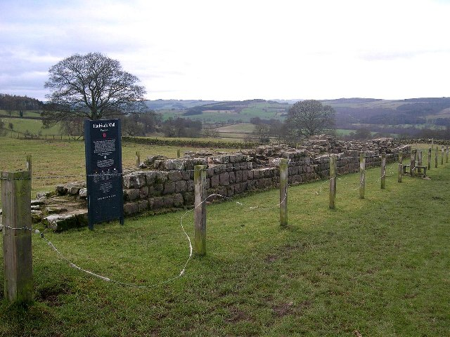 Roman Wall at Planetrees. In 1801 William Hutton witnessed part of Hadrian's Wall being dismantled to provide stone for the building of Planetrees Farmhouse.